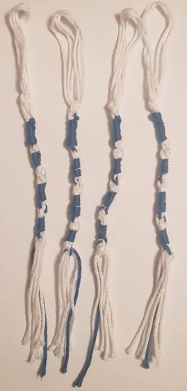 An example of tassels, described in the book of Numbers 15:37-41. God commands wearing of tassels in the four corners of the garment.